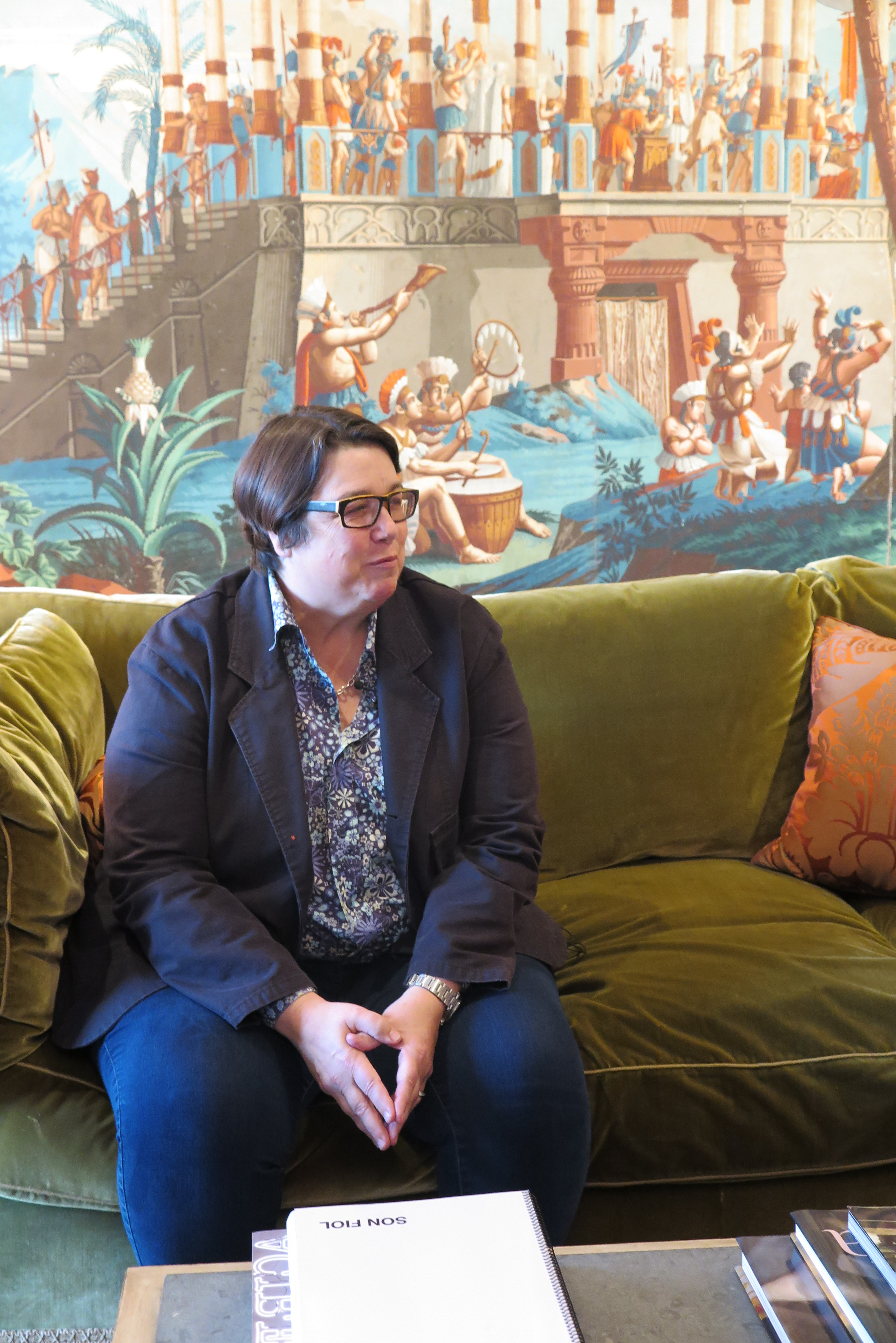 Catherine Opie y Philip Taaffe